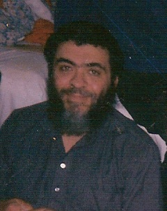 Image of Ahmed Khadr living in Peshawar, Pakistan.